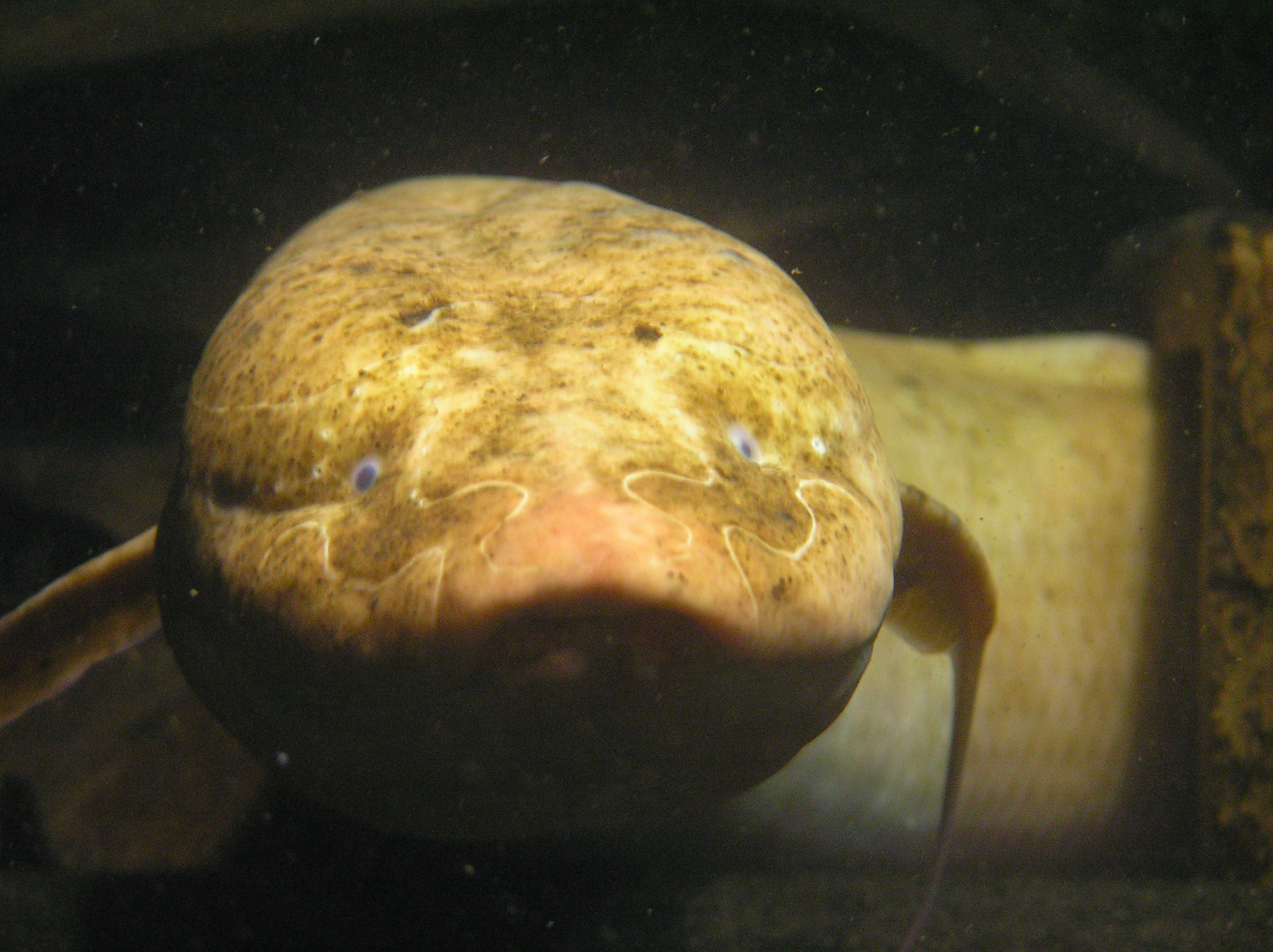 Protopterus sp.